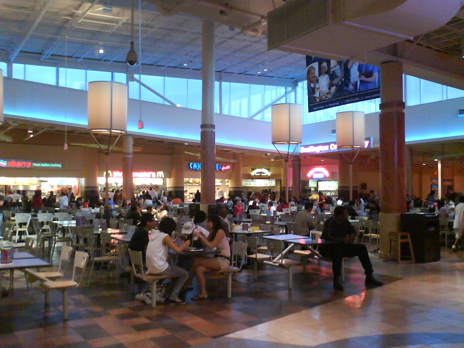 Facing Northeast in the Potomac Mills food court.